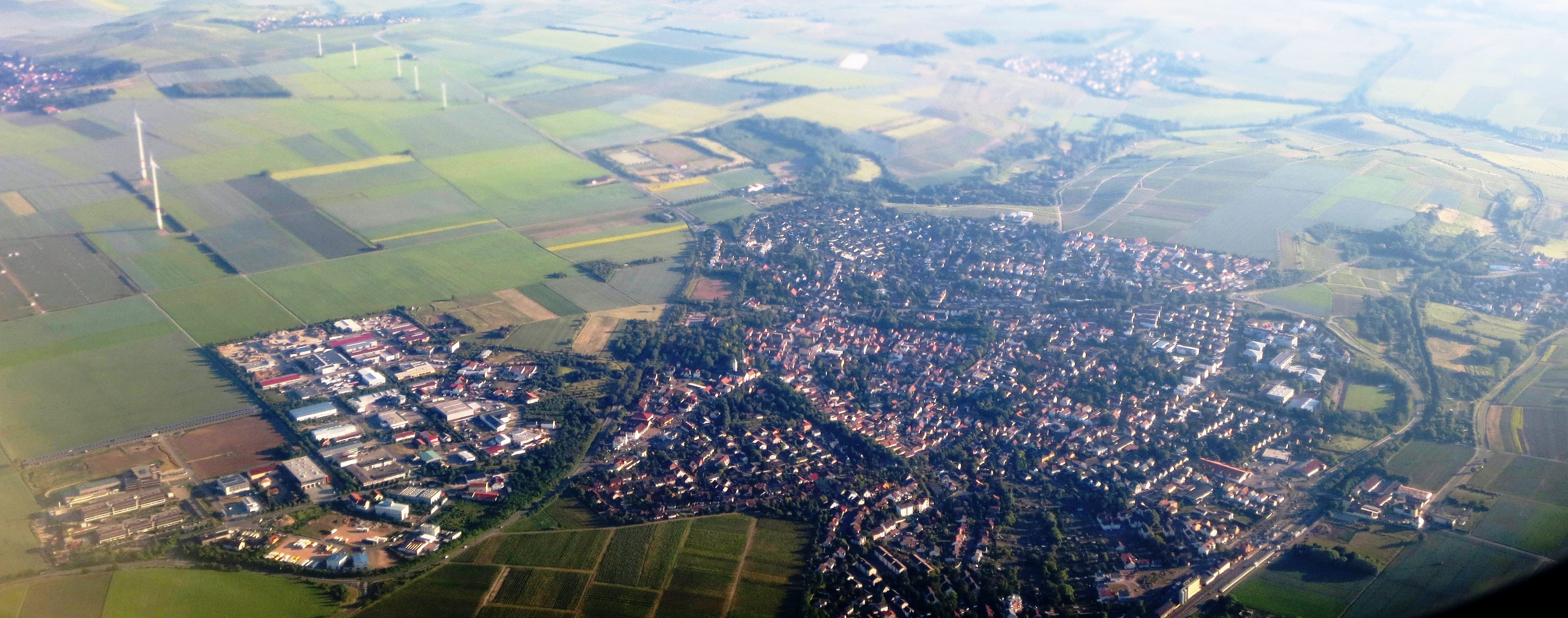 Aerial view of the settlement of Wörrstadt, in the state of Rhineland-Palatinate (Rheinland-Pfalz), Germany.